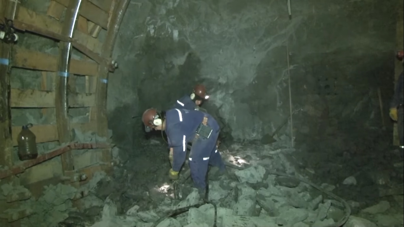 Interior of the Yacimientos Carboníferos Río Turbio Coal Mine